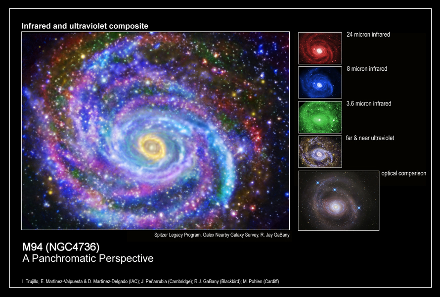 In the October 10, 2009 edition of the Astrophysical Journal, an international team of astrophysicists and astronomers have reported that the outer ring surrounding M94 (NGC4736) is not a closed stellar ring, as historically reported in the literature, but an extensive structure featuring spiral arms and energetic new star formation.